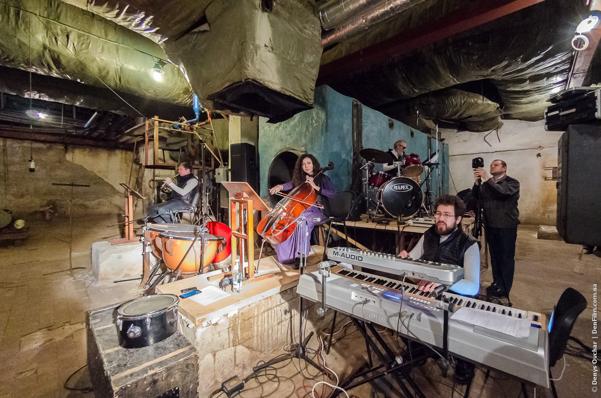 The orchestra of horror-opera HAMLET